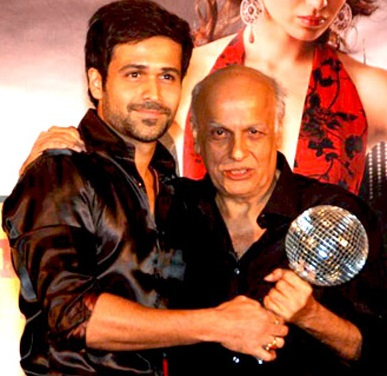 Emraan Hashmi and Mahesh Bhatt at OUATIM party